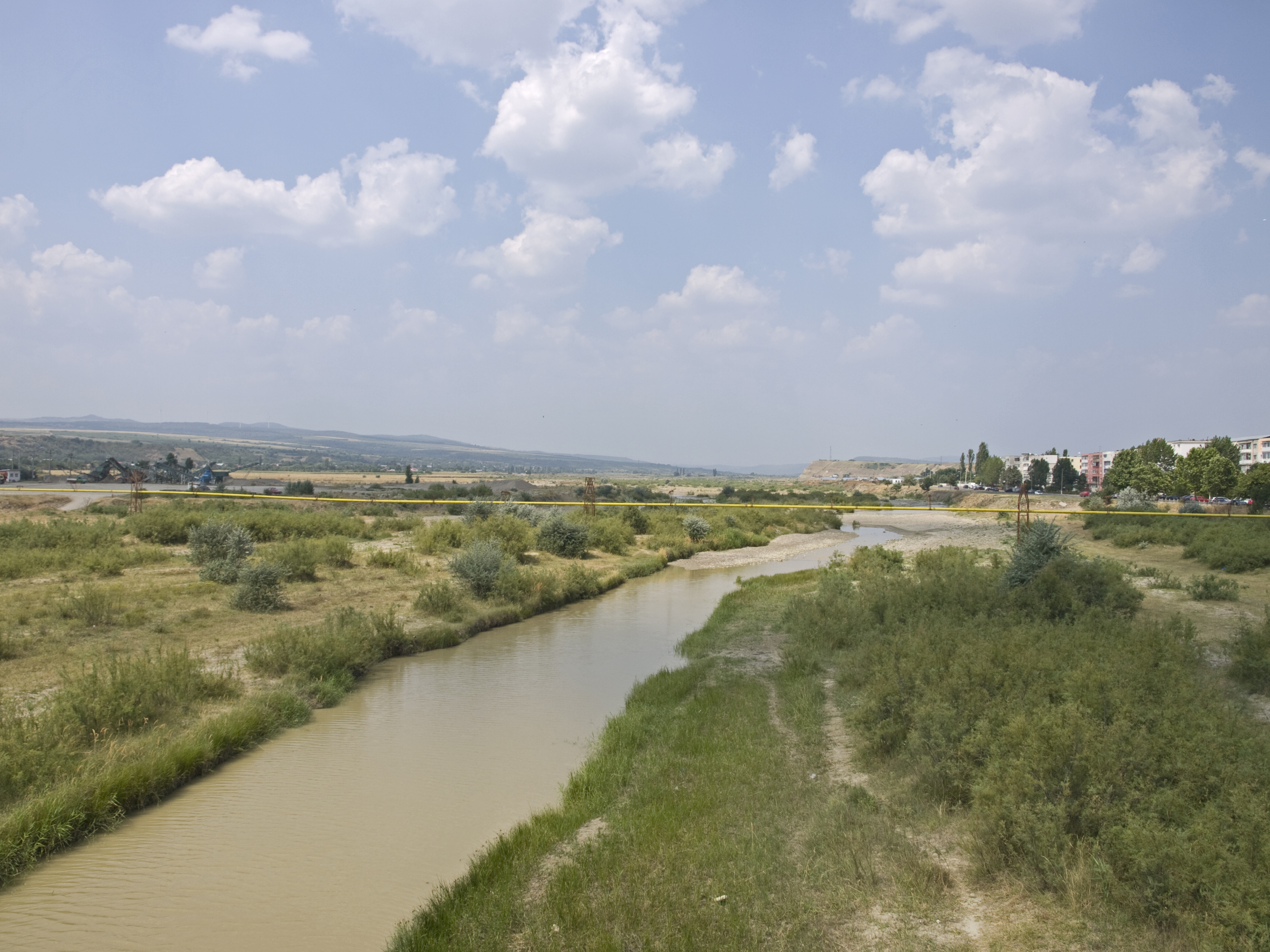 Râmnicul Sărat (river) from the DN2 road bridge west of the city of Râmnicu Sărat